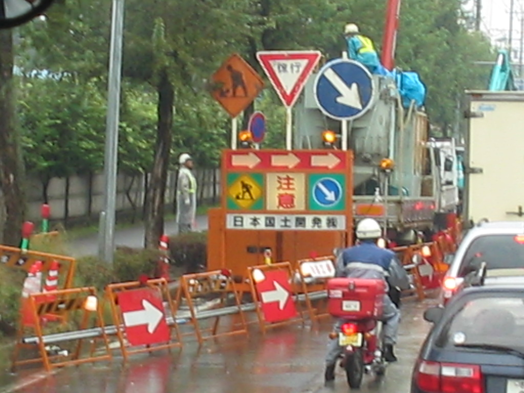 knelpunt/bottleneck in Nagoya